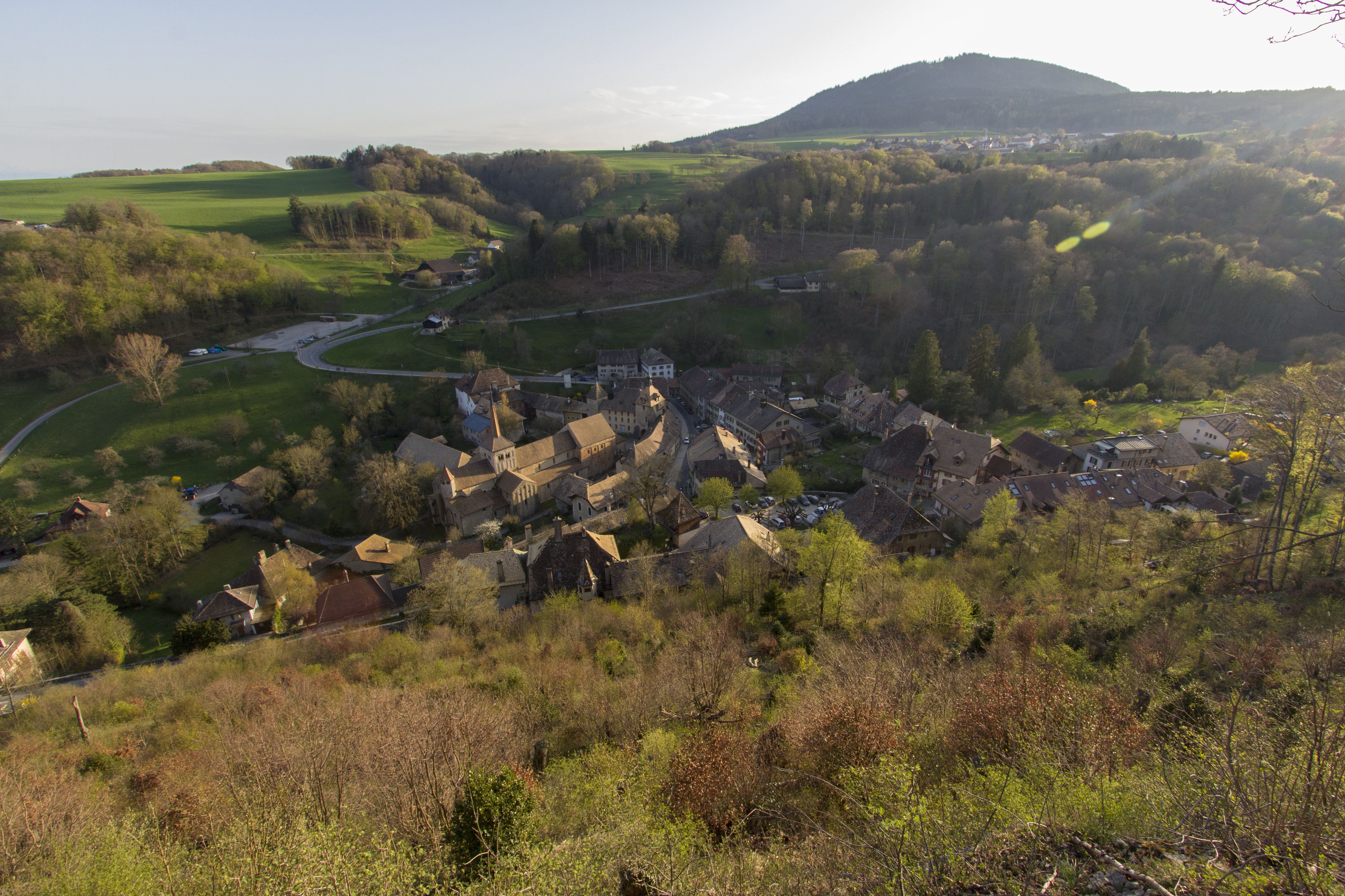 The Swiss village of Romainmôtier with Envy in the background